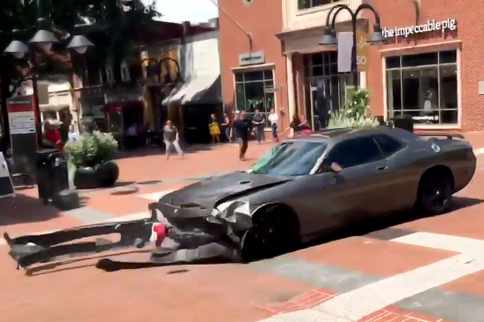 Car involved in a vehicle-ramming attack in Charlottesville, Virginia, U.S.